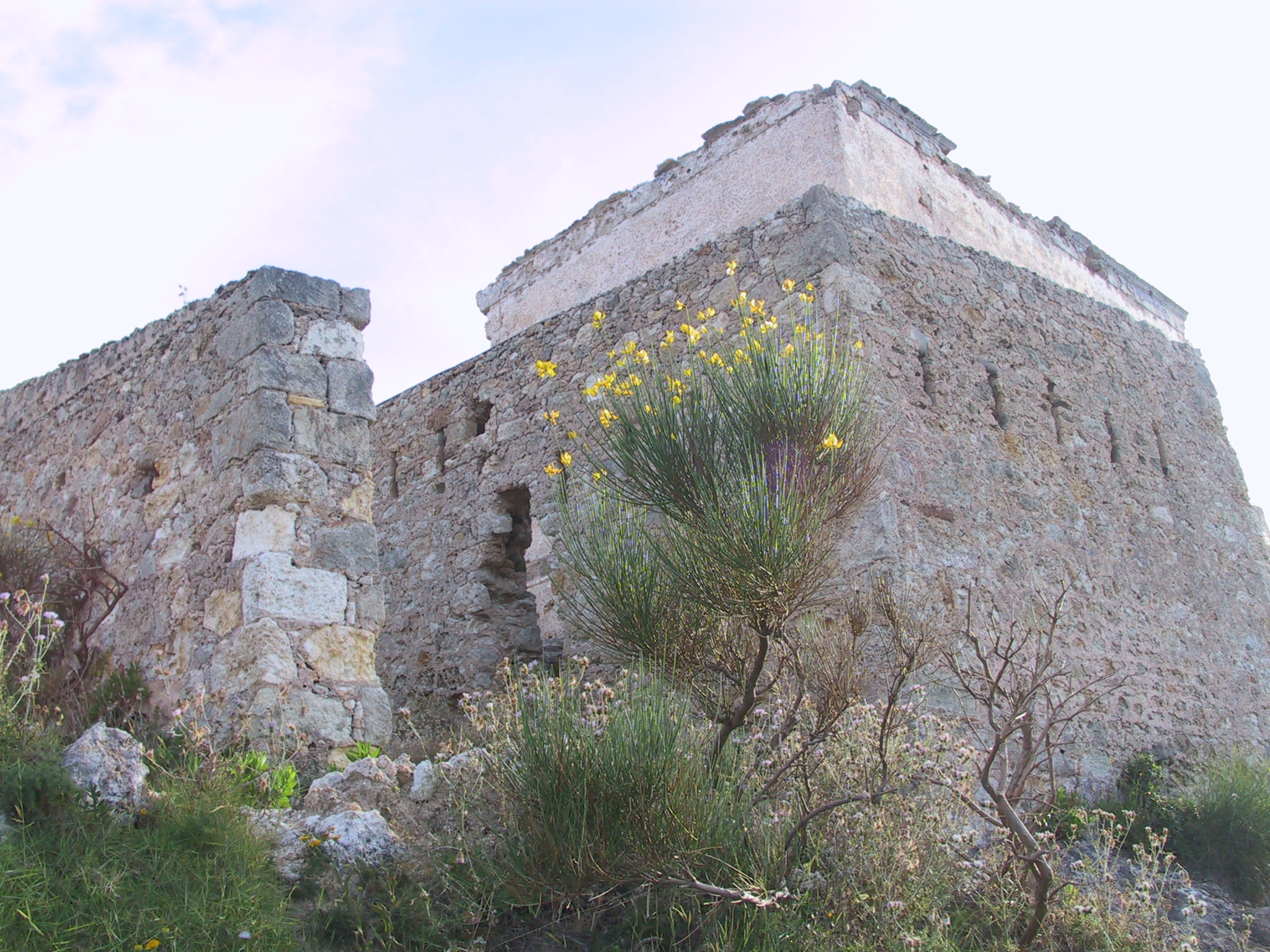 Punta del Papa on Ponza Island.